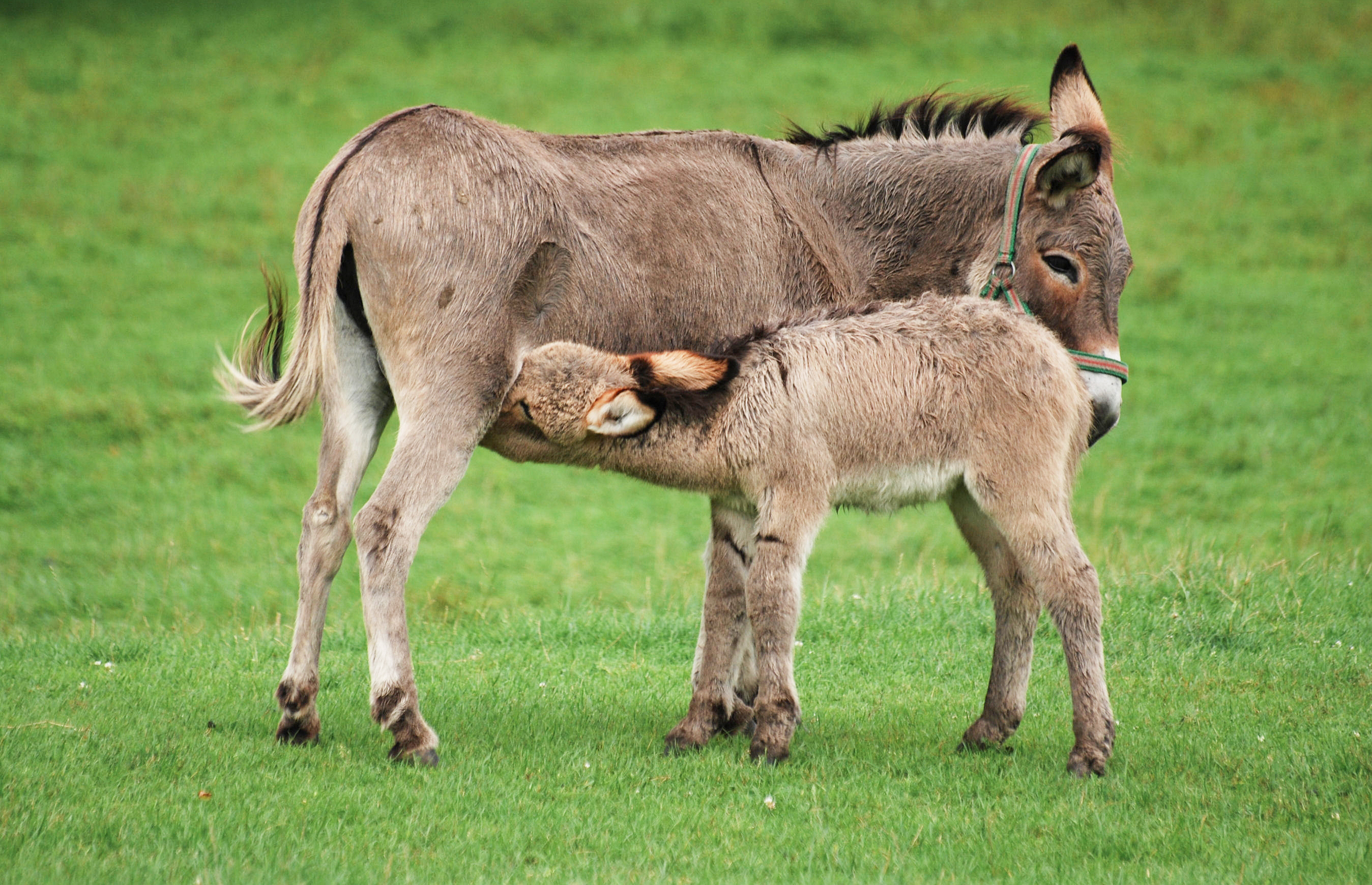 A female donkey (Equus asinus) with her foal in Kadzidłowo.